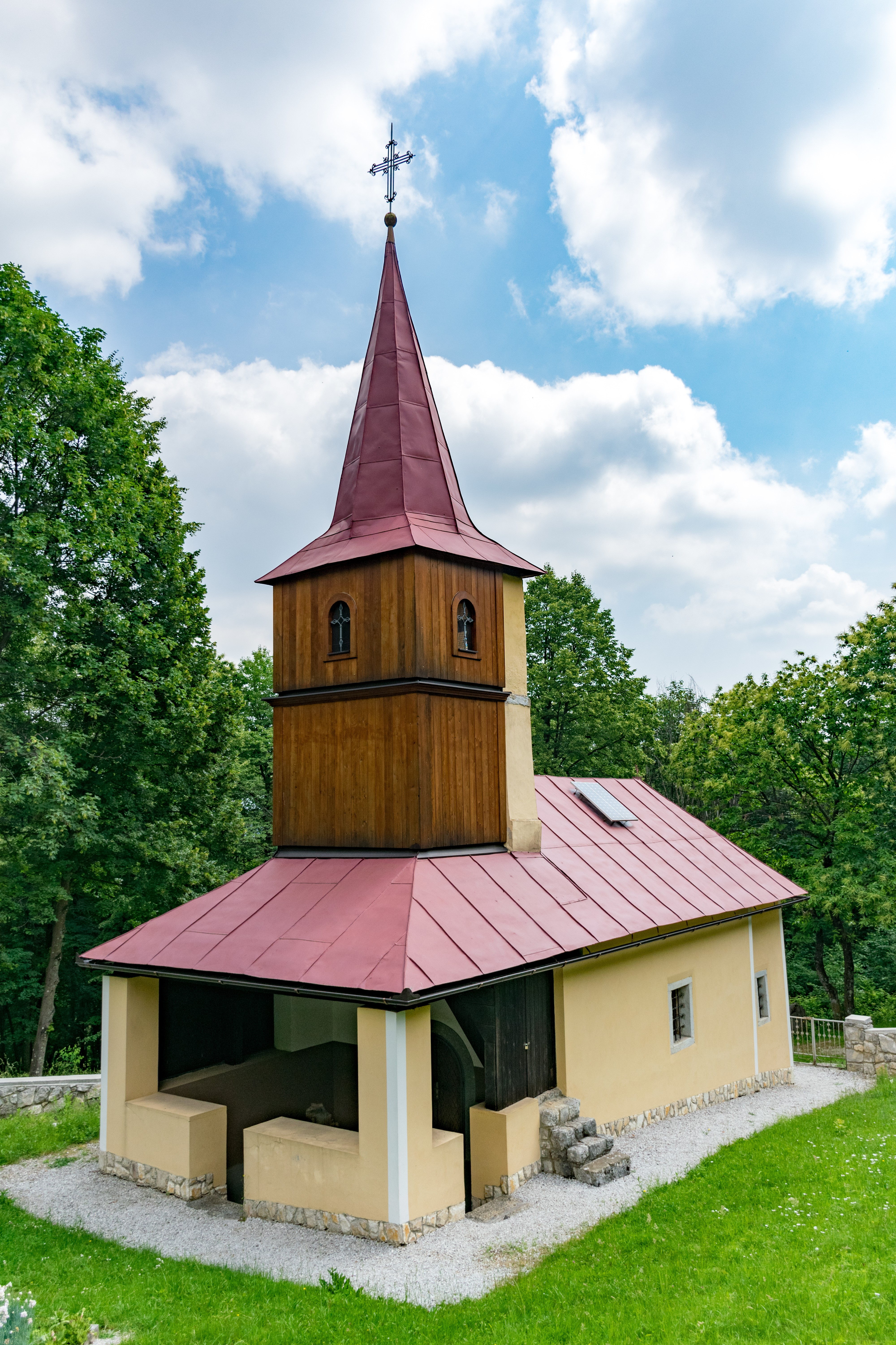 This media shows a cultural heritage object of Slovenia with the EŠD number: 1736